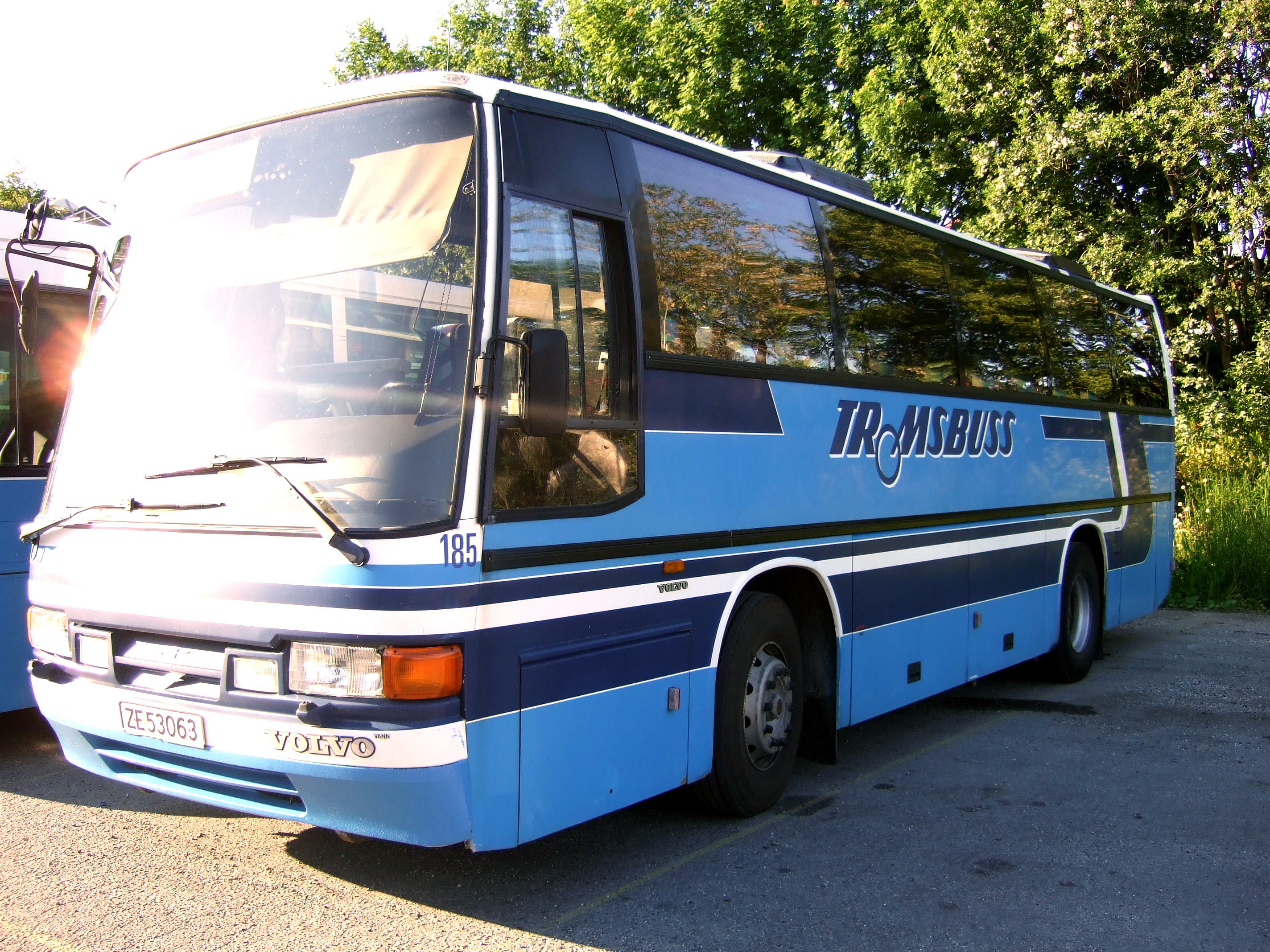 A bus from the public transport company Tromsbuss in Tromsø. Car brand Volvo.